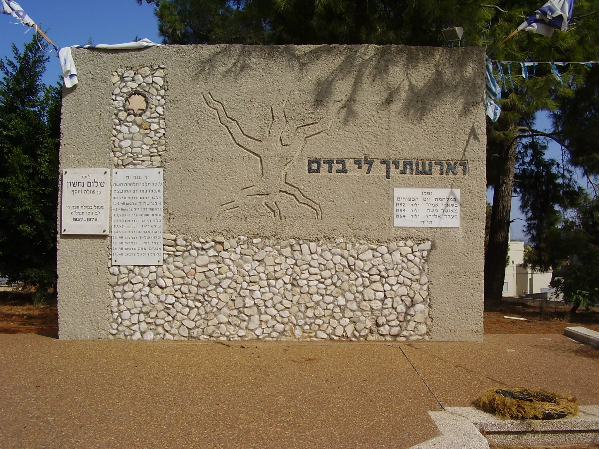 war memorial in geulim